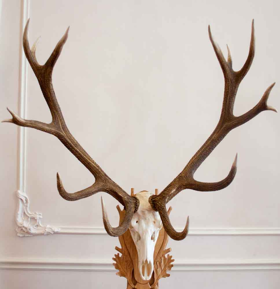 Gamás_-_Tuskósi_stag, location - Gamás (Somogy county); hunter - Ernst Joachim Schausberger; weight 12,57 kg; number of tine ends - even 14 points (7/7); CIC points - 249,37 IPlabel QS:Len,"Gamás_-_Tuskósi_stag, location - Gamás (Somogy county); hunter - Ernst Joachim Schausberger; weight 12,57 kg; number of tine ends - even 14 points (7/7); CIC points - 249,37 IP" label QS:Lhu,"Gamási gímbika v. Tuskósi bika, Gamás, Somogy megye, Ernst Joachim Schausberger, tömeg - 12,57 kg, ágak száma - páros 14 (7/7), CIC pontszám 249,37 IP"